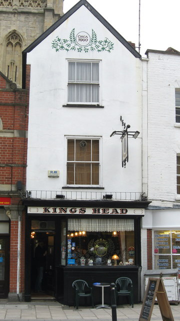 The Kings Head, Broadmead Dating from the early 17th century this little gem of a pub has an unspoilt original interior